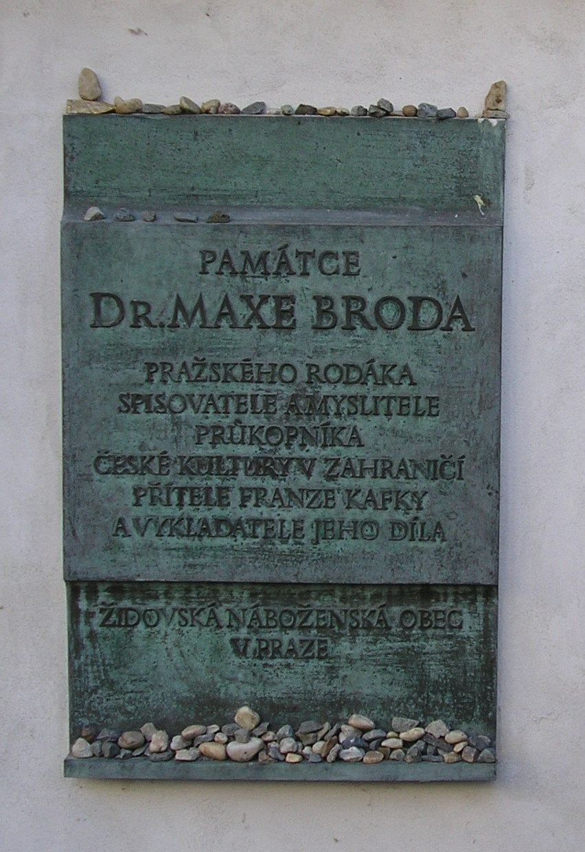 Opposite to the grave of Franz Kafka (New Jewish Cemetery, Prague) there is a wall with a bronze plaque which commemorates Max Brod (1884 – 1968), friend, biographer and publisher of the literary work of Franz Kafka.